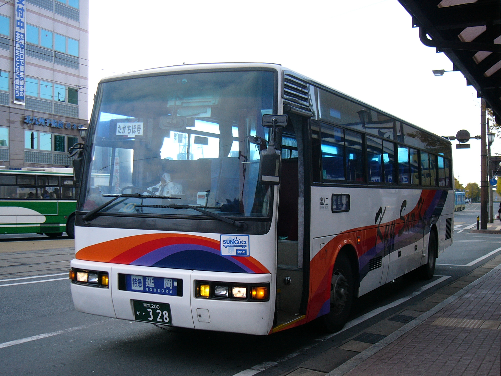 Company:Kyushu Sanko Bus Use:highway bus Car license:熊本200 か 328 Coachbuilder:Isuzu Location:kumamoto city